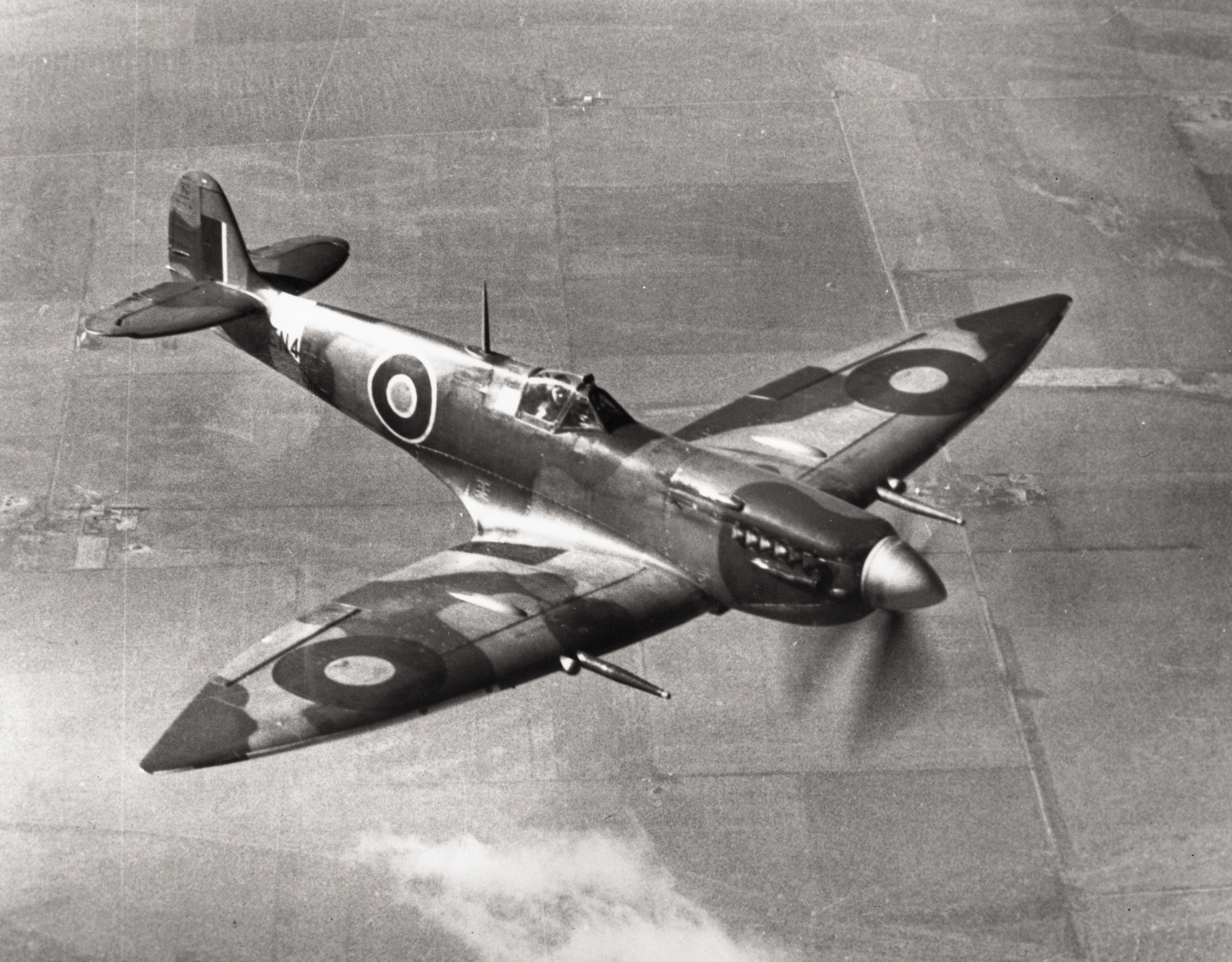 Spitfire H.F Mk. VII being tested at Langley, 1943.